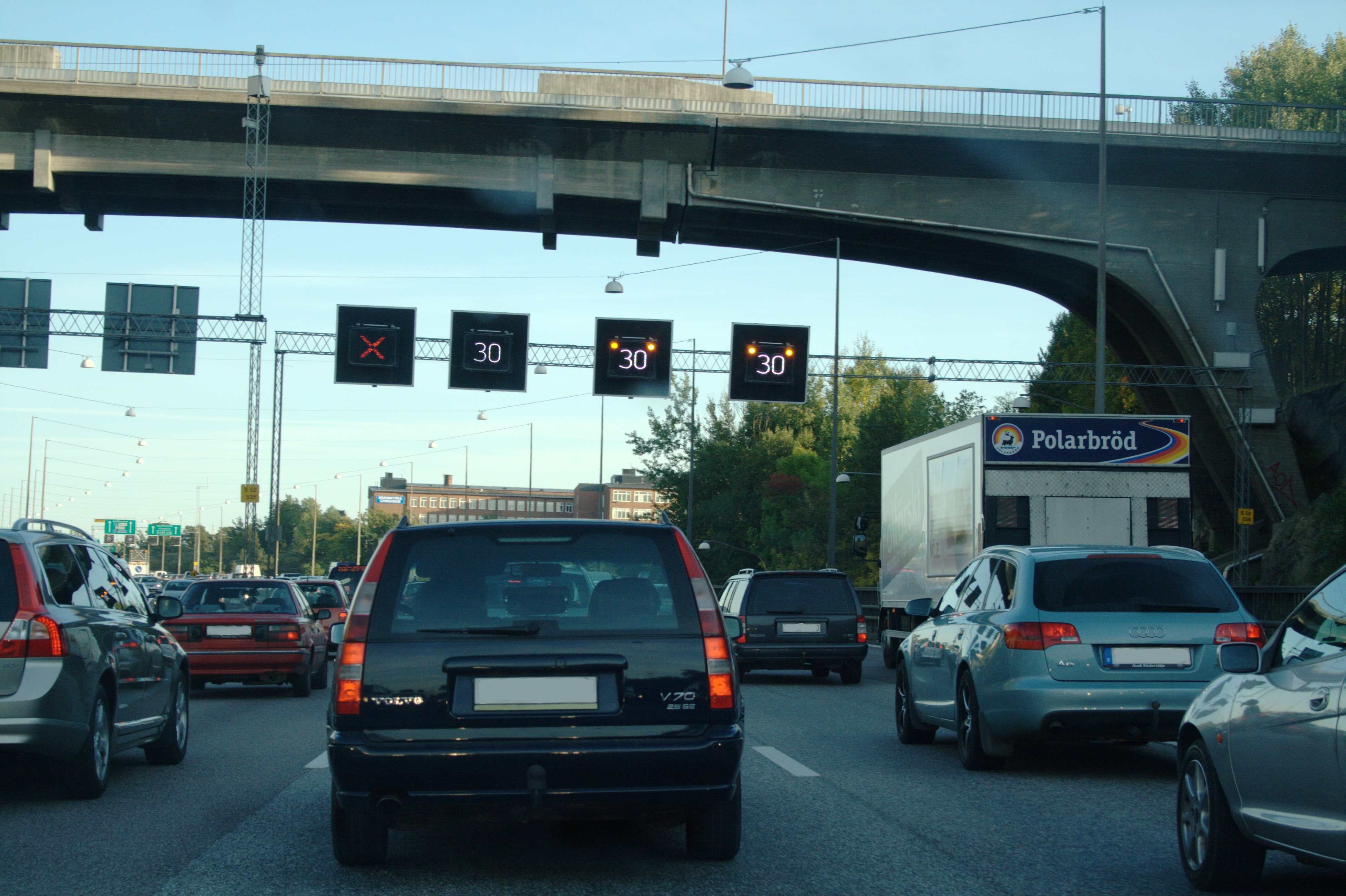 Signaling equipment as it is used in Stockholm, Sweden. You can clearly see the "30" (km/h) signs used there.